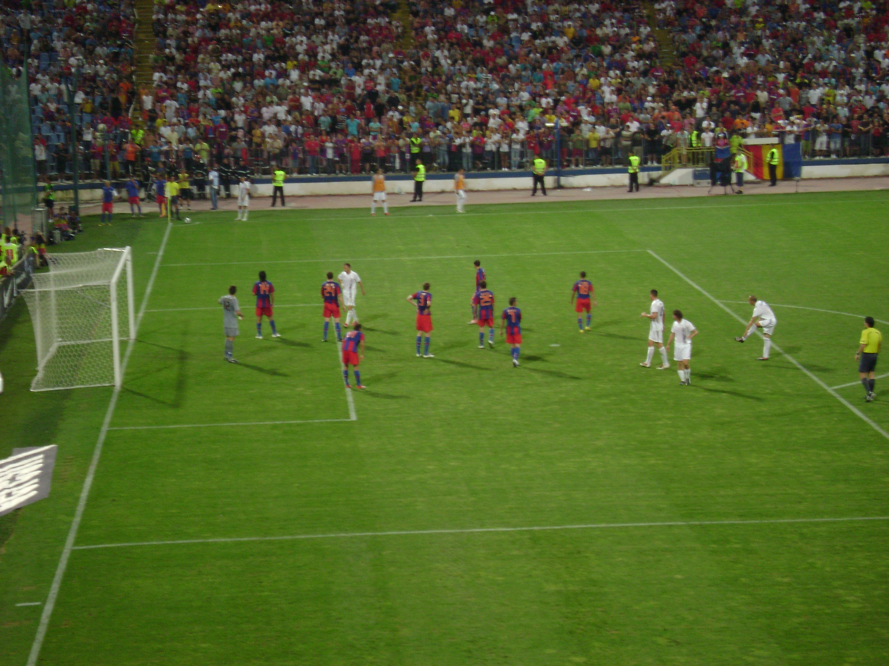 Corner kick during Steaua-Újpest FC 16 July 2009 on Stadionul Steaua, Bucharest.